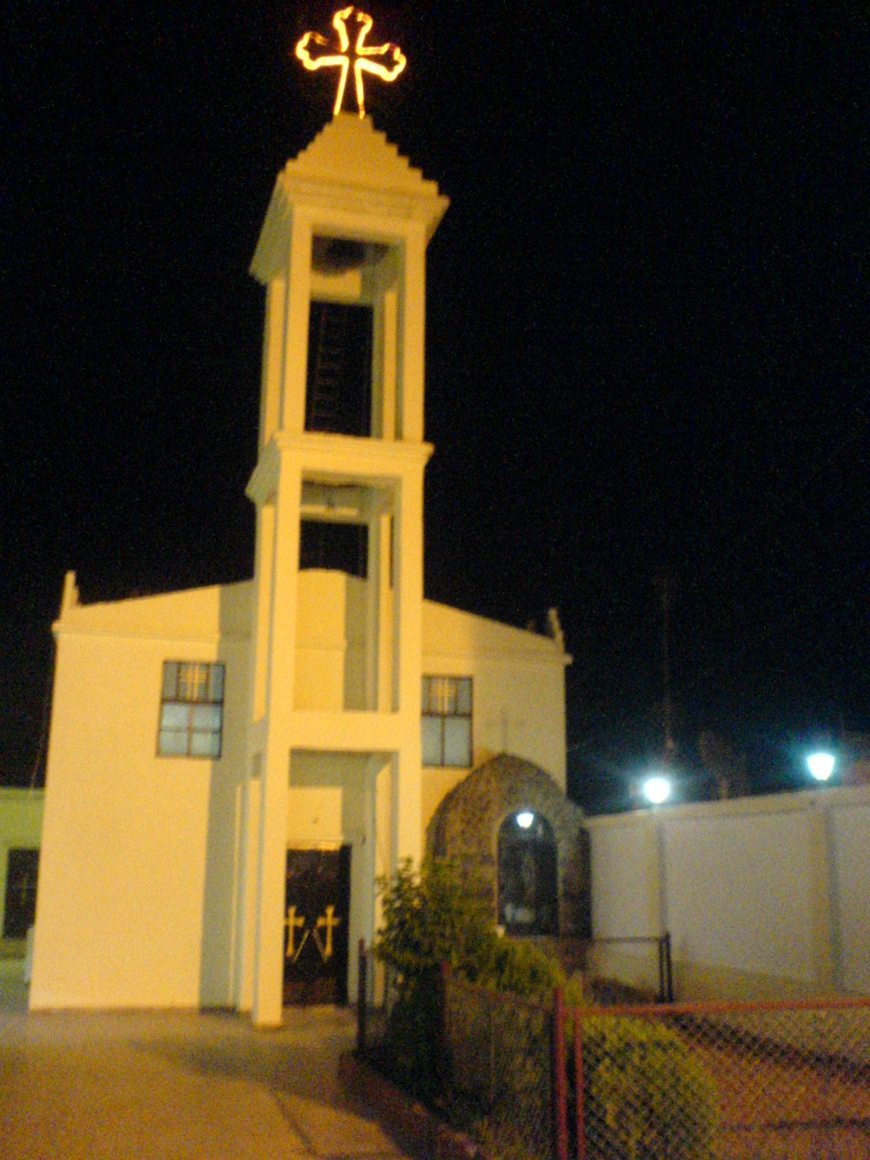 Chaldean church, Al-Malikiyah, Syria